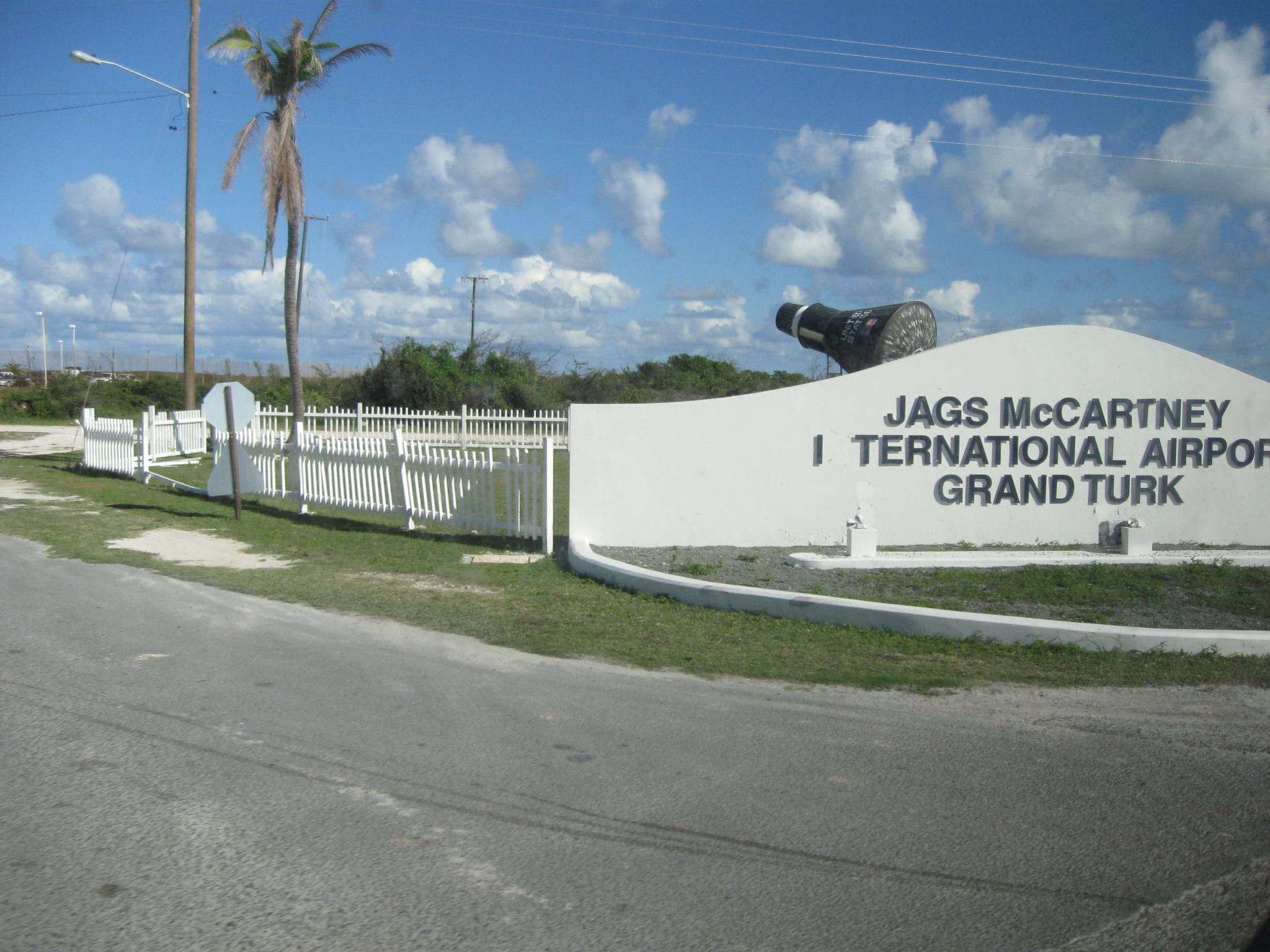 I took this picture from a moving taxi on Grand Turk in the Turks and Caicos. Note: Mercury capsule replica; apparent hurricane damage| to fence and sign. There are numerous instances of hurricane damage still on the island, as of three/four months after the hurricanes (Hurricane Hanna being the other one, besides Ike).